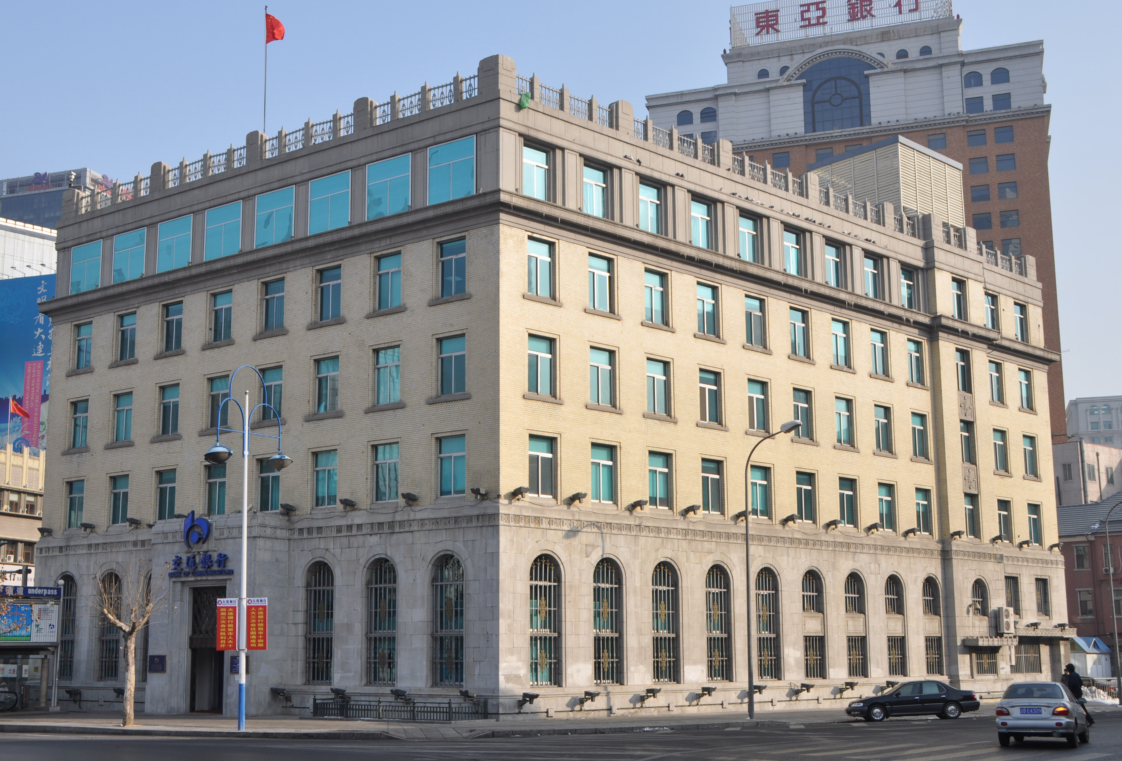 Former Oriental Development Company, Dalian, China